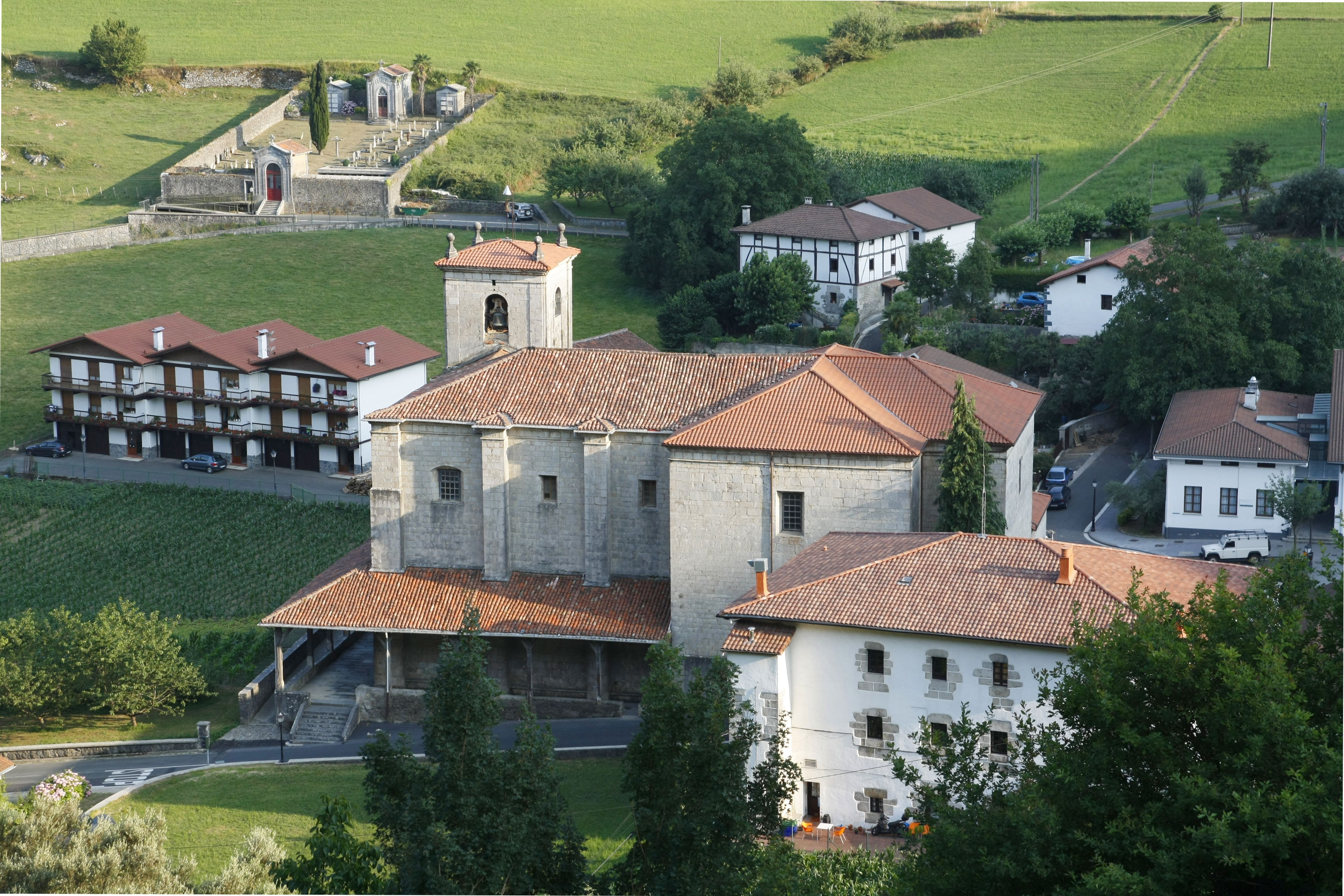 Nuestra Sra. de la Asuncion church - Albiztur